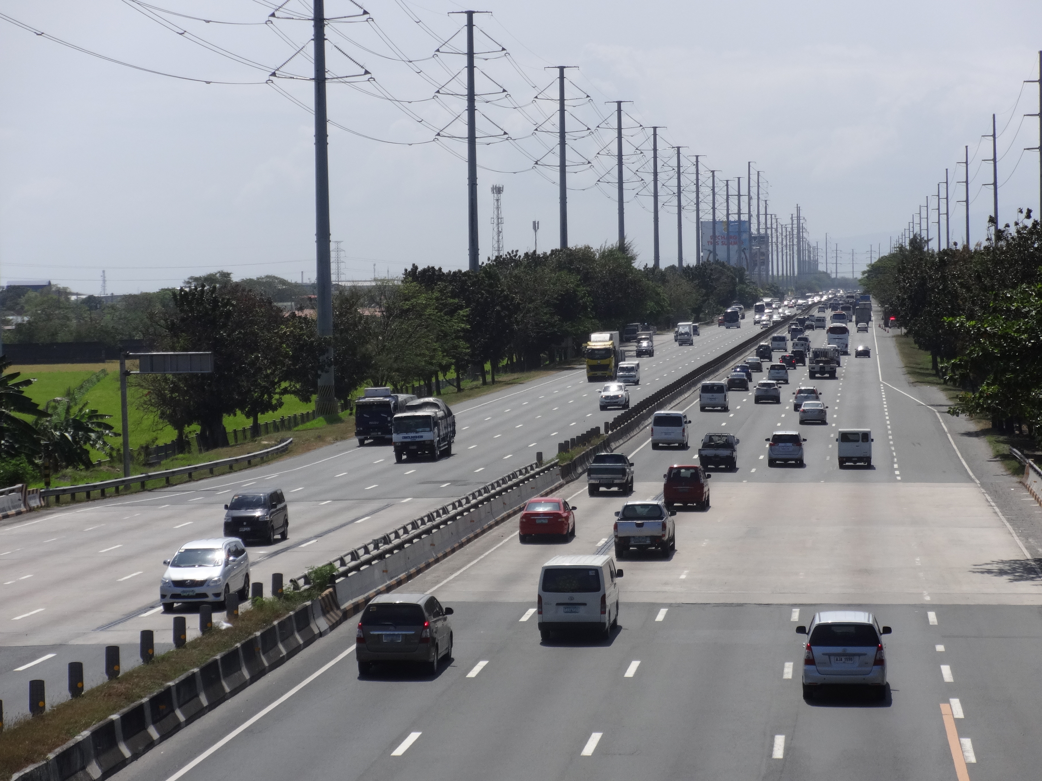 Part of South Luzon Expressway (SLEX) in Carmona, Cavite